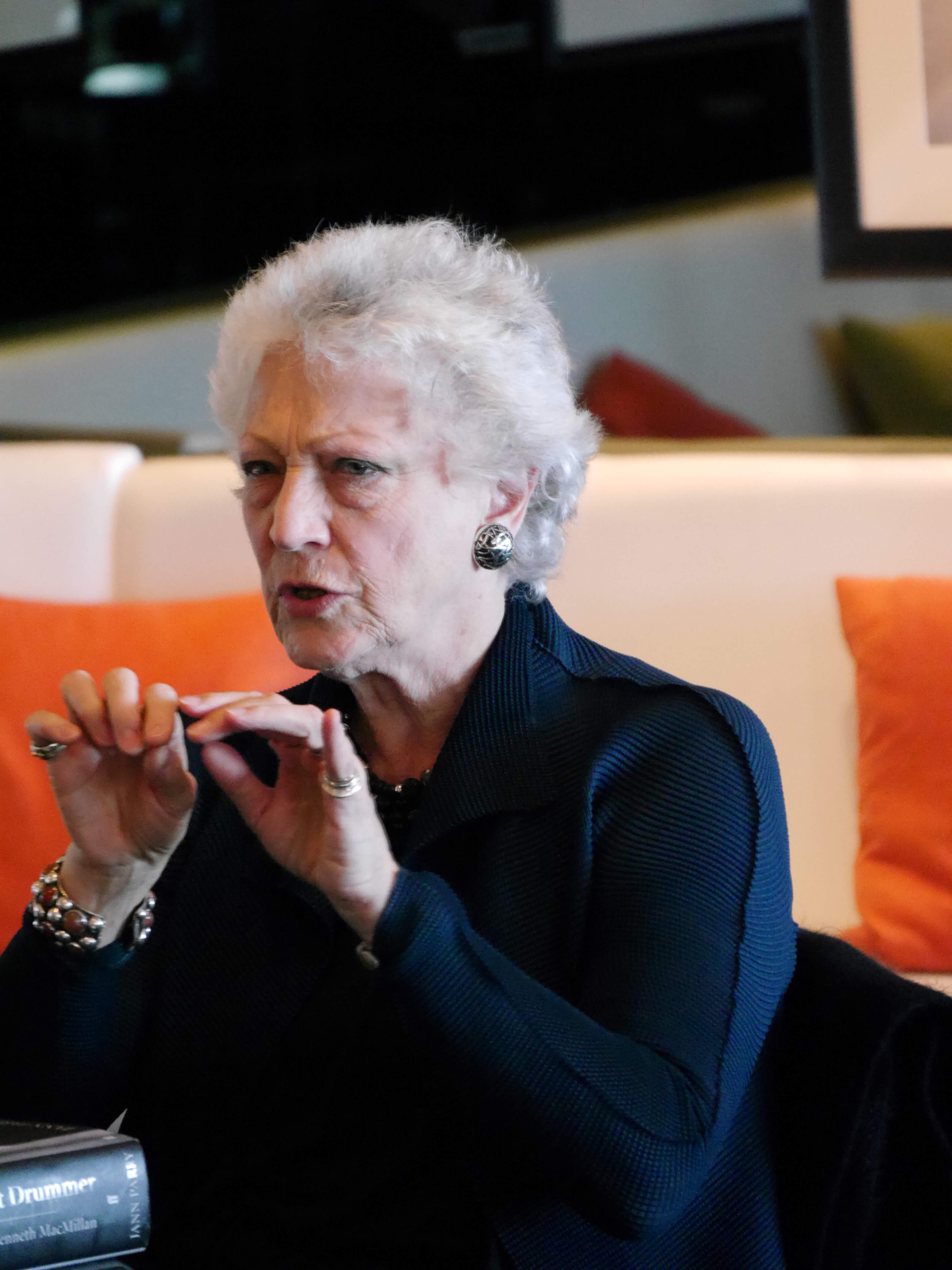 Royal Ballet editathon, October 2014